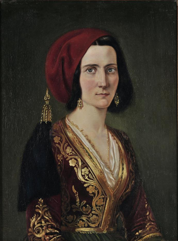 Girl with Greek attire